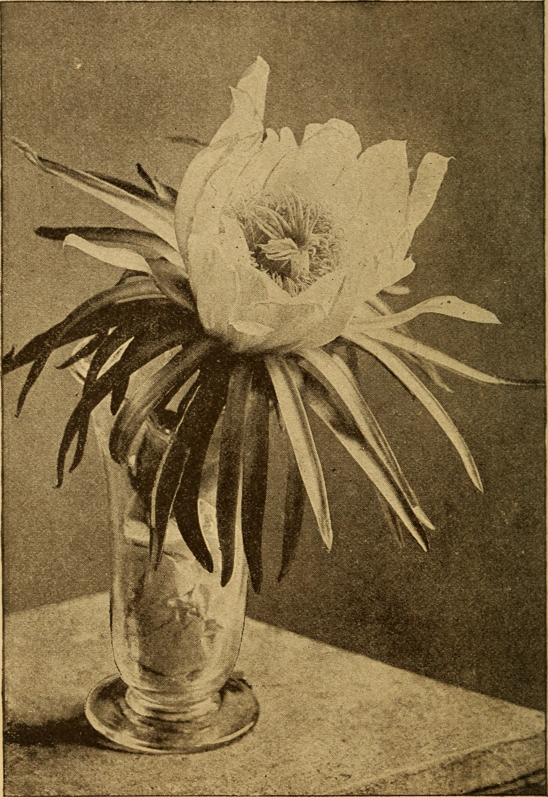 Title: Glimpses at the plant world Year: 1892 (1890s) Authors: Bergen, Fanny Dickerson, 1846- Subjects: Botany Publisher: Boston, Lee and Shepard New York, C. T. Dillingham Text Appearing Before Image: ' Text Appearing After Image: GLIMPSES AT THE PLANT WORLD BV \ CONTENTS. Page Glimpses at the Plant-world i I. What is a Plant ? 13 II. The Plant which makes Bread rise . 17 III. What is Mould? 20 IV. A Word about Toadstools 25 V. Some other Flowerless Plants ... 28 VI. Frog-spit 34 VII. A Garden in the Sea 41 VIII. Sea Plants (Continued) 45 IX. Robin-wheat 51 X. Ferns 58 XI. The Walking-fern 62 XII. A Plant in Armor 67 XIII. The Linen Plant 73 XIV. Summary 77 XV. The Parts of the Flower 80 XVI. How Seeds are Perfected 87 vi , CONTENTS. Page XVII. How Flowers hire their Pollen car-ried 93 XVIII. Some Pollenglimpsesatplantw00berg